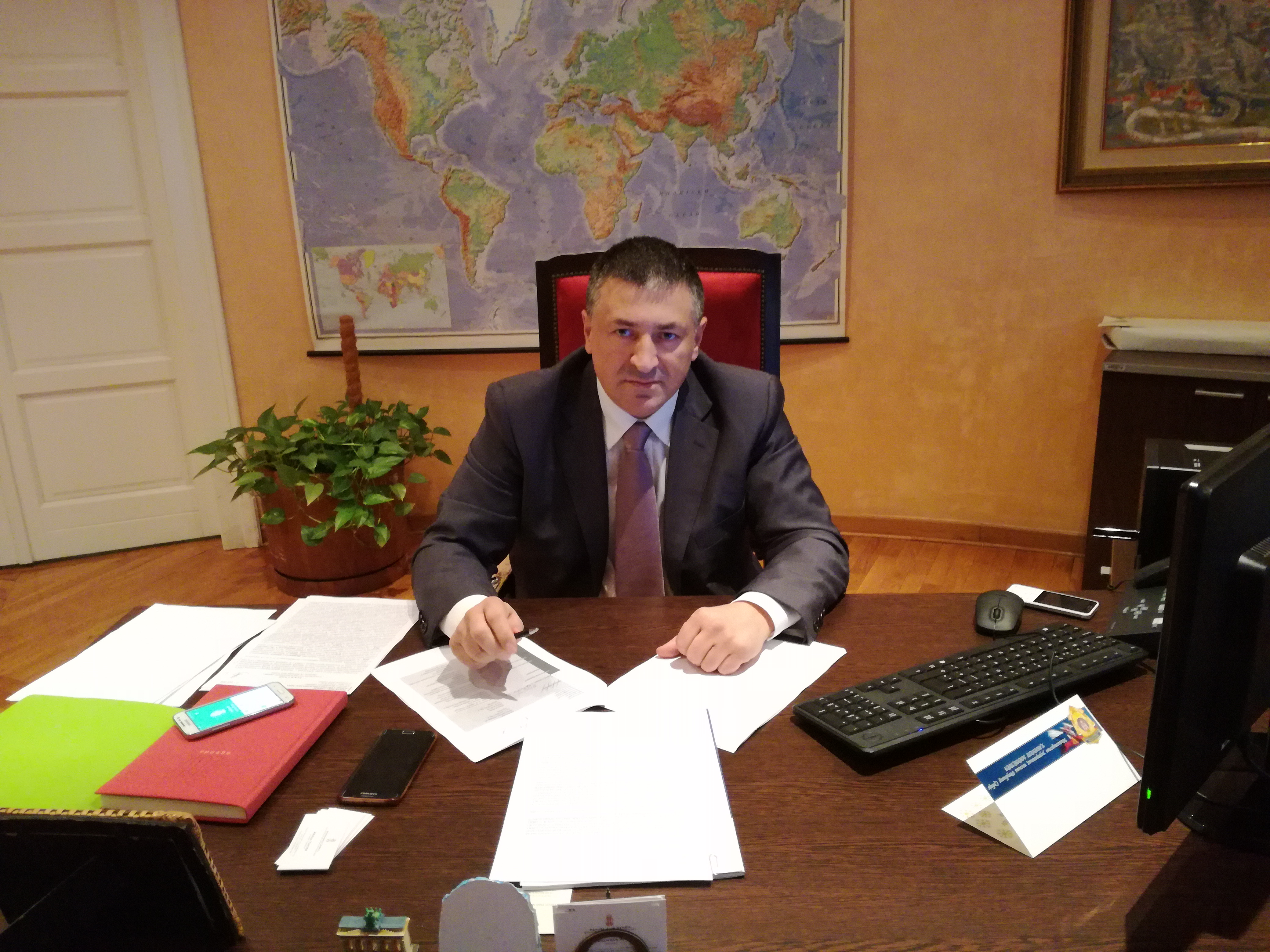 Ivica Toncev, State Secretary at the Ministry of Foreign Affairs of the Republic of Serbia (since December 2016)